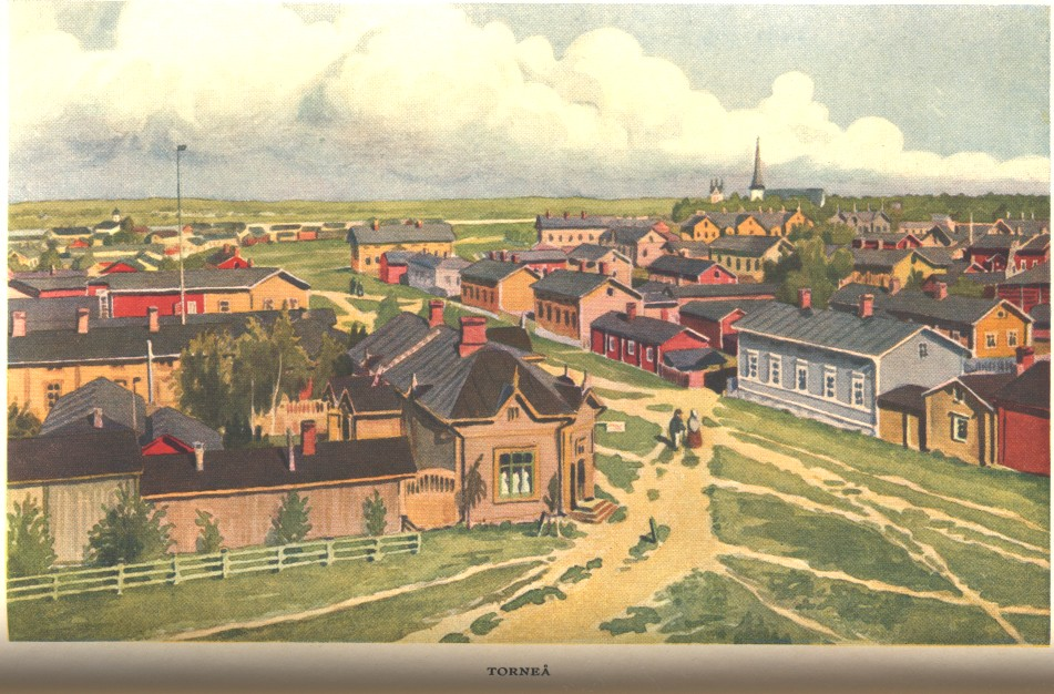 Alexander Federley's picture of Tornio, Finland.